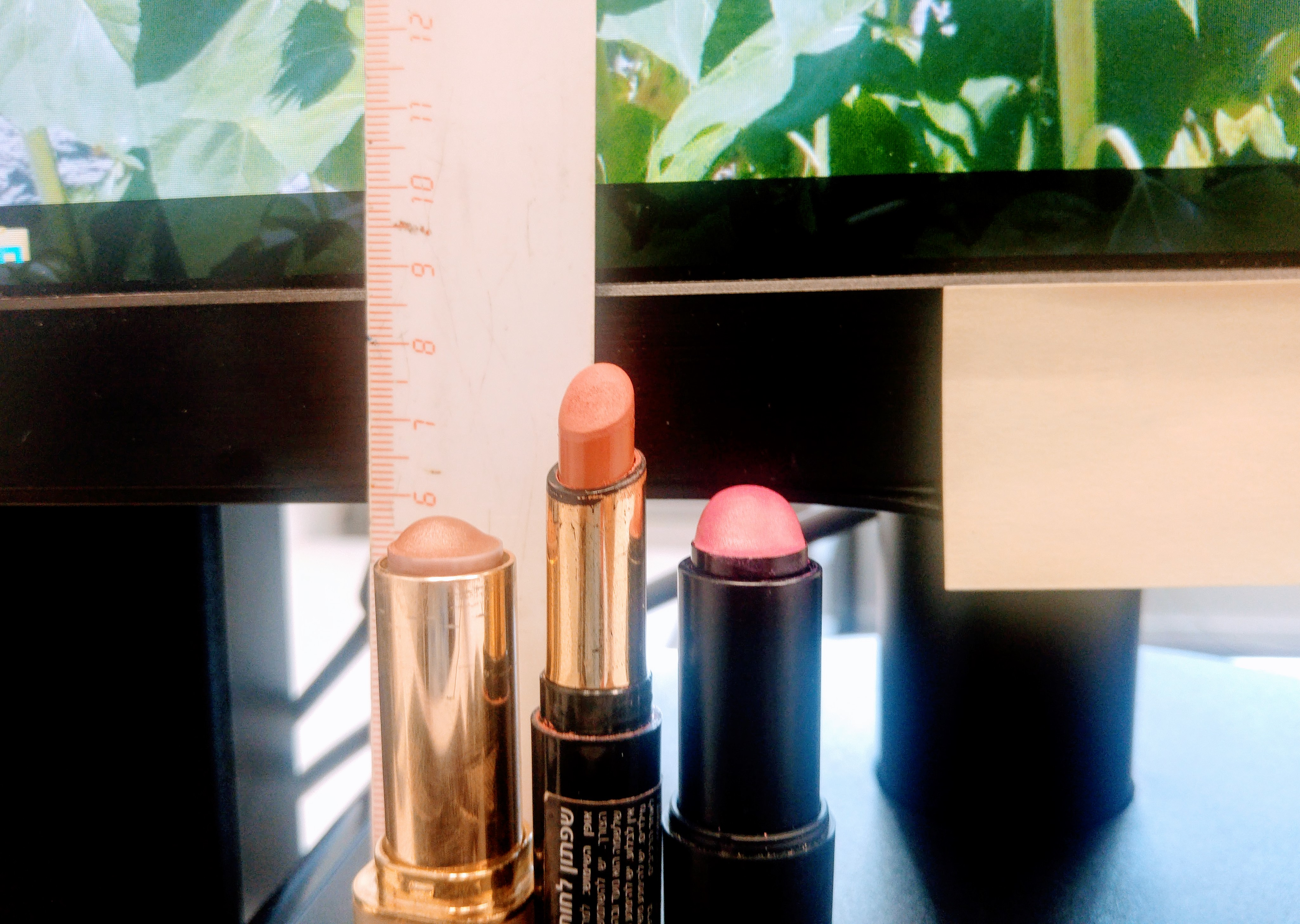 Lipstick index